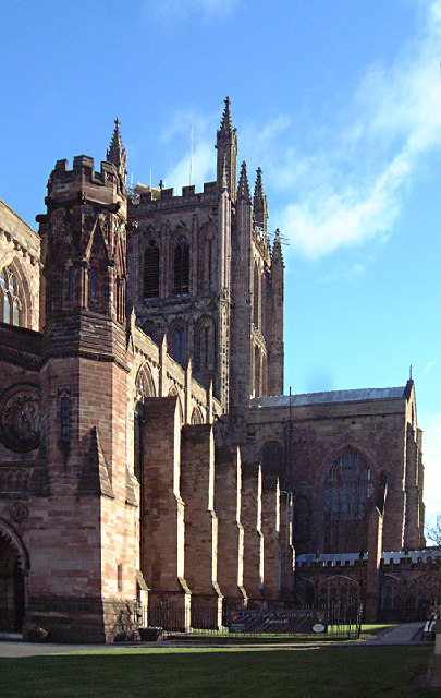 Hereford Cathedral, England at grid reference SO509397. There has been a church near this site since at least the 8th century. The current (Norman) Cathedral was originally built in the 12th century in the Romanesque style and much of it is still standing. The early cathedral was somewhat closer to the river. The current cathedral is built on the site of the Saxon market, according to an early map in the book, A Slap of the Hand -The History of Hereford Market, published by Hereford Lore.